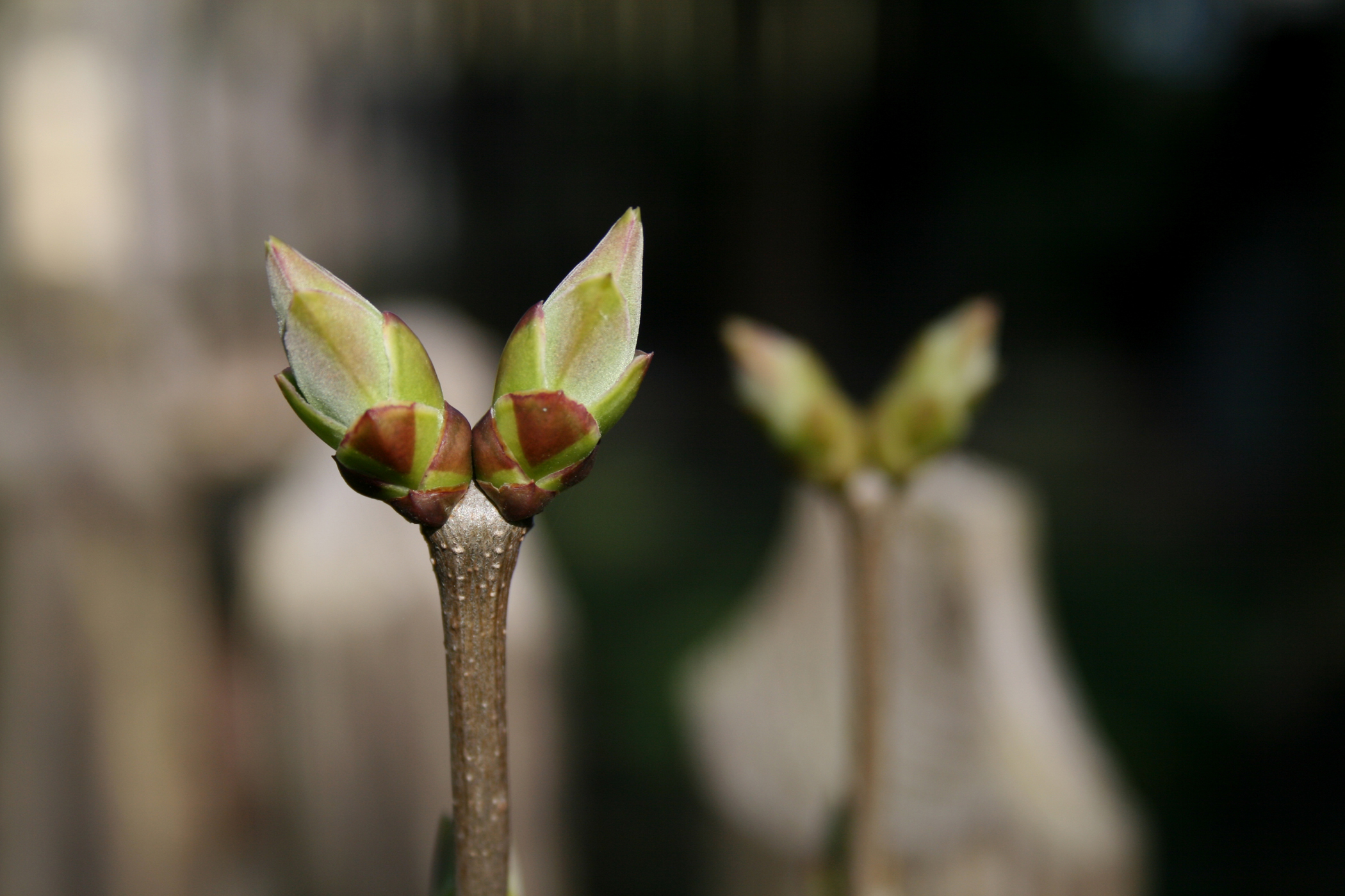 Buds of lilac Syringa vulgaris, East Bohemia, Czech Republic